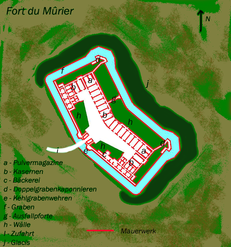 Plan of the Fort Mûrier near Grenoble in France